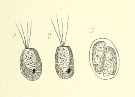 1-3. Carteria subcordiformis Wille = Tetraselmis subcordiformis (Wille) Butcher